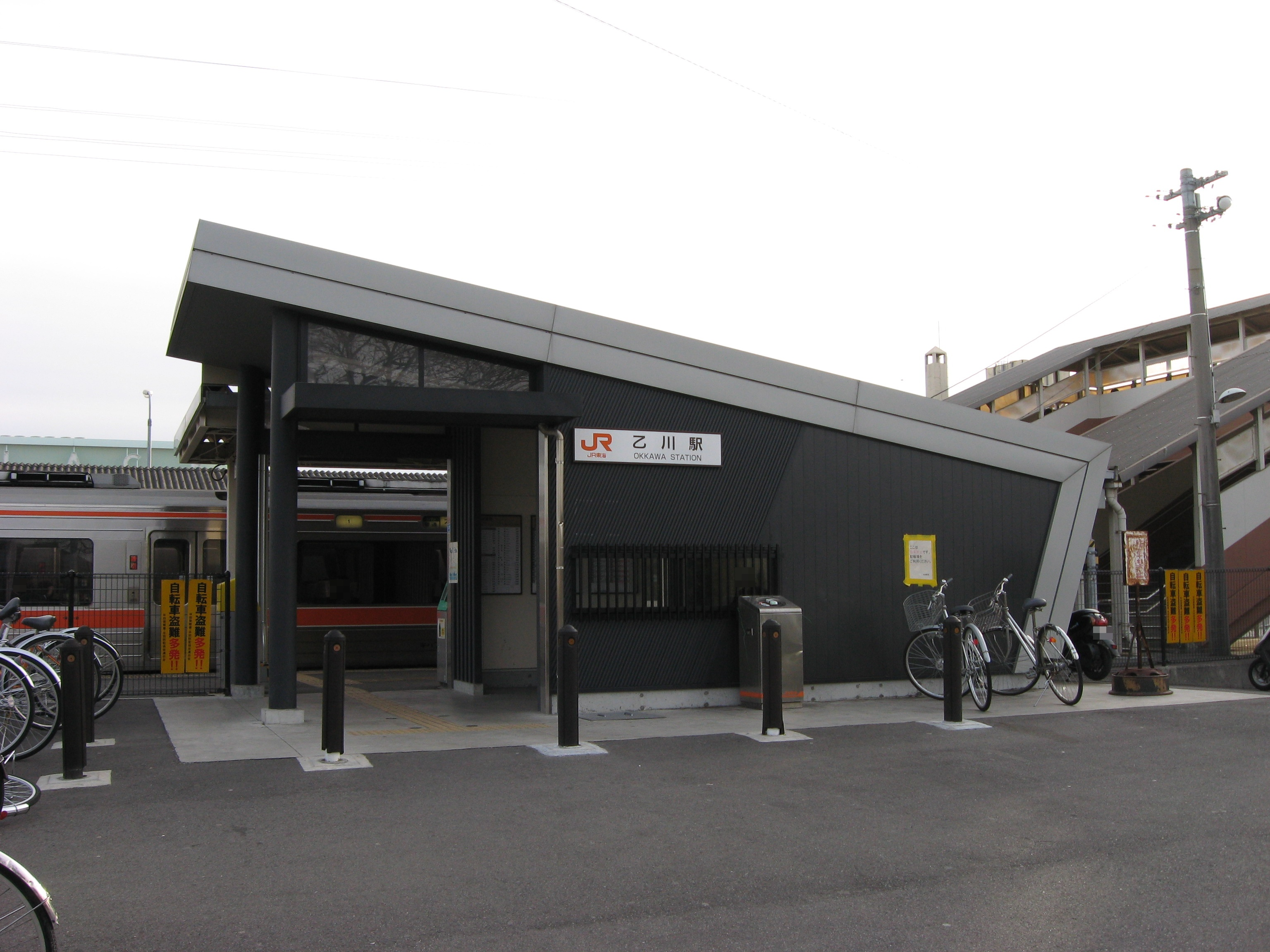 JR Central Taketoyo Line Okkawa Station Building